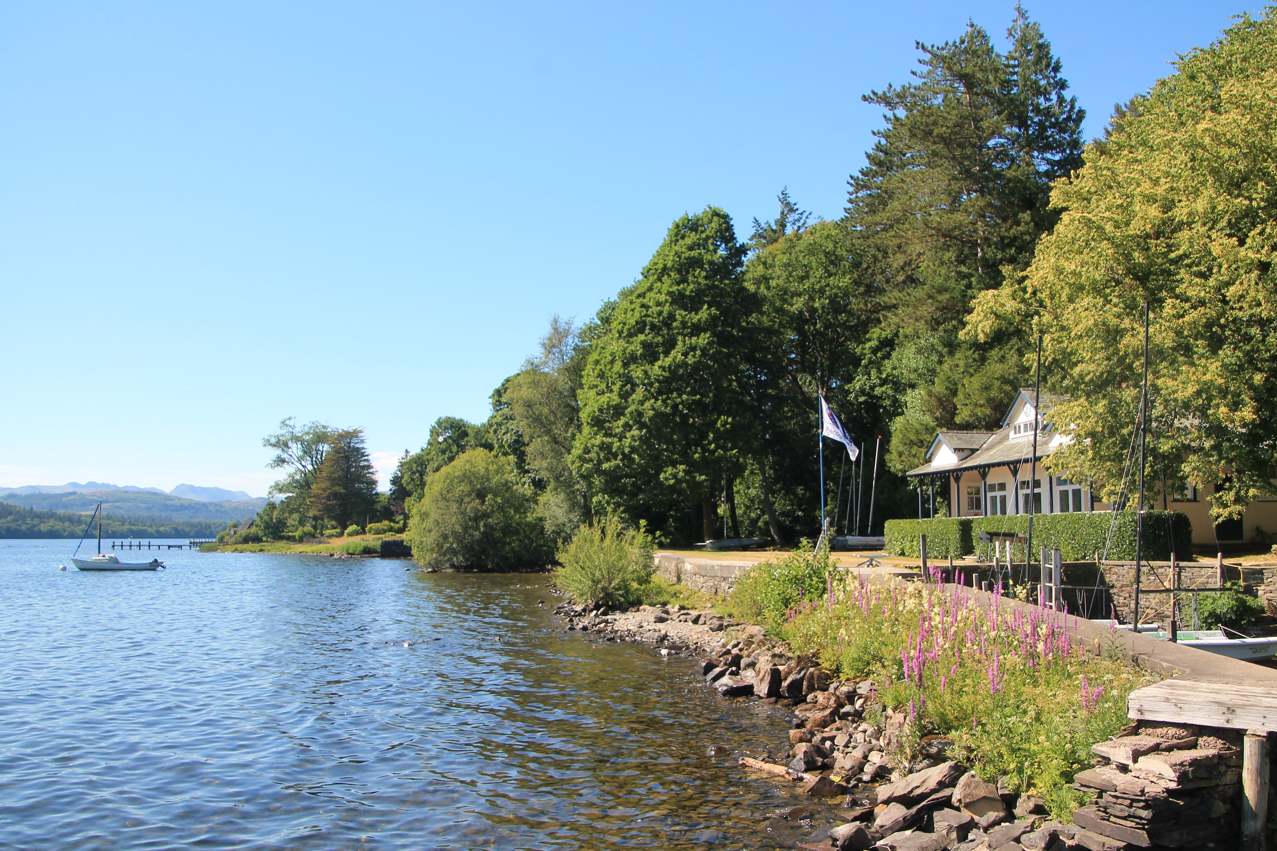 Windermere School's private Watersports Centre on the shores of Lake Windermere